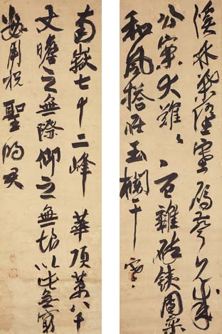 Keiringe, Nangakuge (渓林偈、南獄偈). Keiringe is a poem about nature's great harmony when Shūhō Myōchō looked at a copse in late fall; Nangakuge is a poem about the grandeur of Mount Heng and the admiration for the Chinese emperor. Two hanging scrolls. Located at Masaki Art Museum (正木美術館, Masaki bijutsukan), Tadaoka, Osaka.